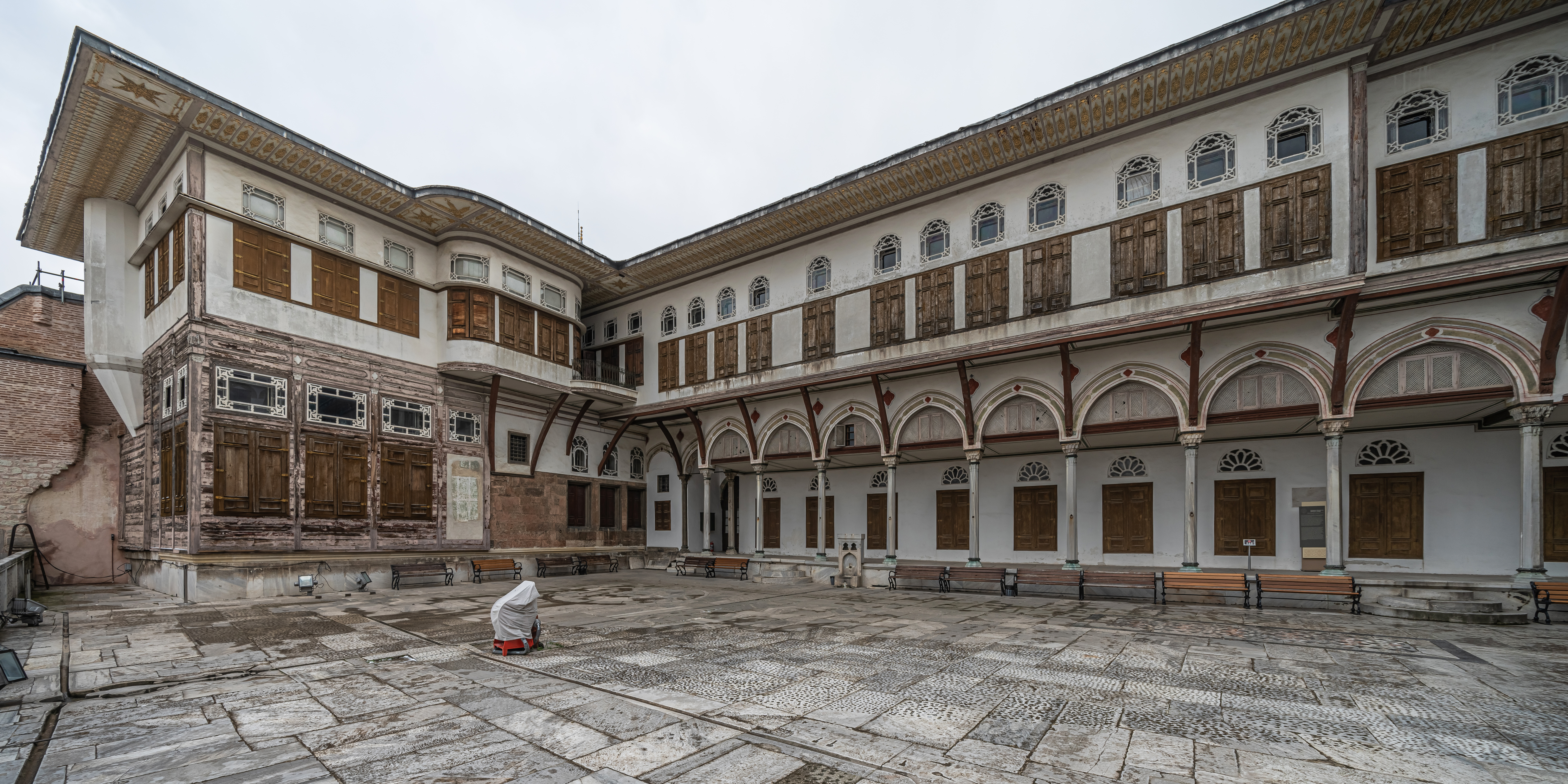 Courtyard of the Favourites in Harem of Topkapı Palace in Istanbul, Turkey